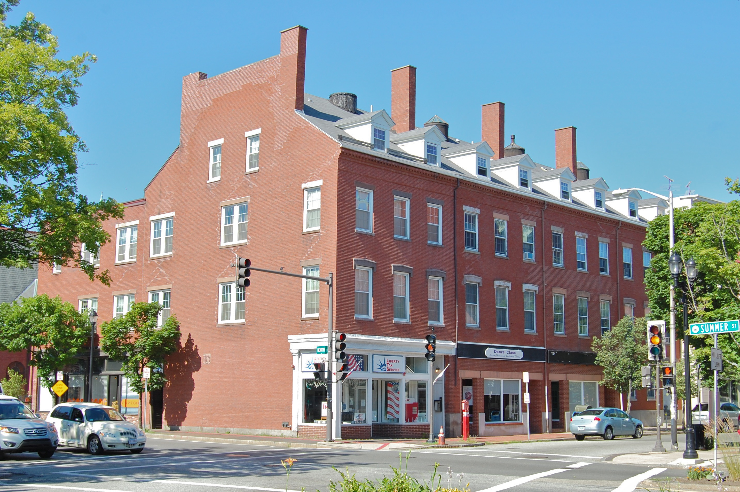 Shepard Block, a row of four residential units built c. 1851 by Michael Shepard. On the National Register of Historic Places.